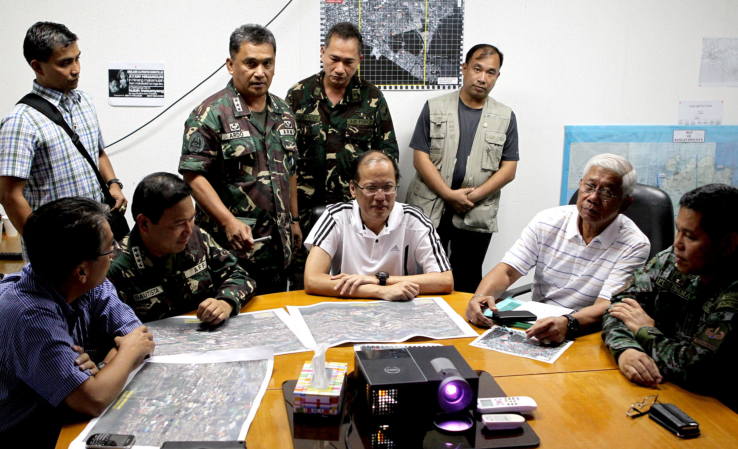 President Aquino meeting with Secretaries Mar Roxas and Voltaire Gazmin, PNP Chief Alan Purisima, AFP Chief of Staff Gen. Emmanuel Bautista, Western Mindanao Command Commander Gen. Rey Ardo, and members of the AFP in Zamboanga City, 2:50 p.m. today, September 21, 2013. (Photo by the Malacañang Photo Bureau)